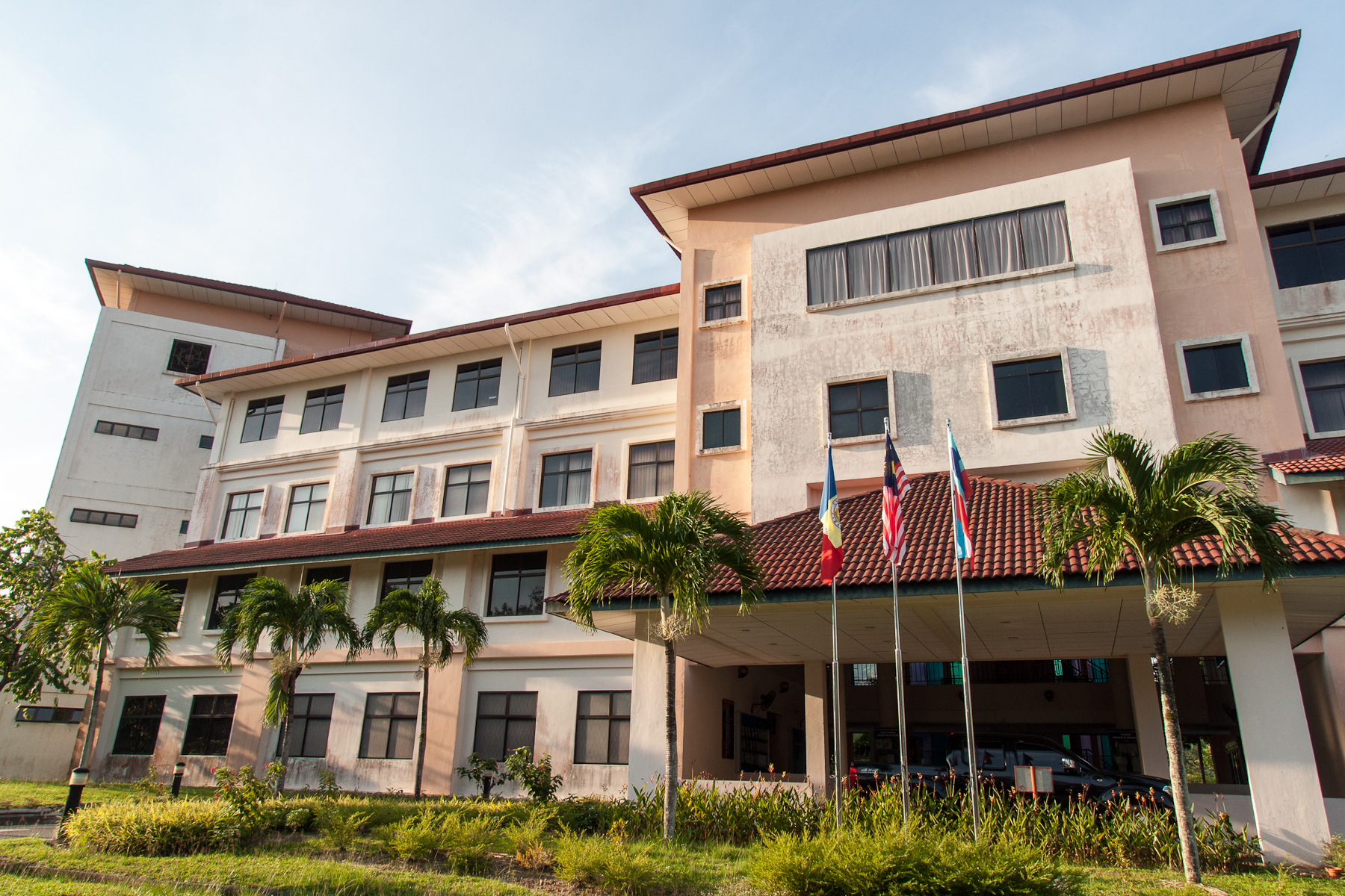 Universiti Malaysia Sabah (UMS), Faculty of Social Science